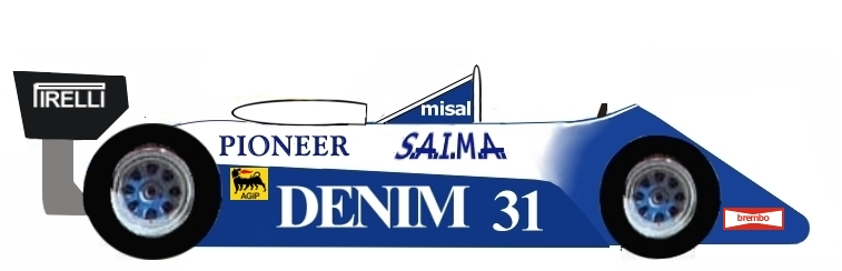 Graphic of an Osella FA1C Formula One Car in 1982 livery